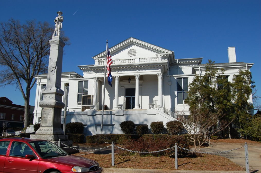 Laurens County Courthouse, Laurens, South Carolina